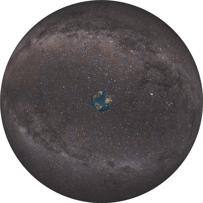 A 3D depiction of the celestial sphere with the sky "wrapped" around Earth at the center.